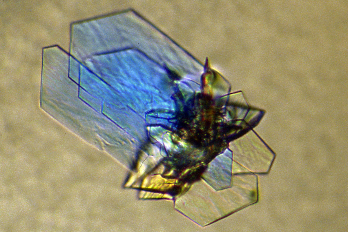 Crystals of DNase protein created for X-ray crystallography, which can reveal detailed, three-dimensional protein structures.